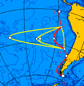 Edward Davis possible routes in 1687, when discovering "Davis' land" (yellow tracks). Red tracks are verified.